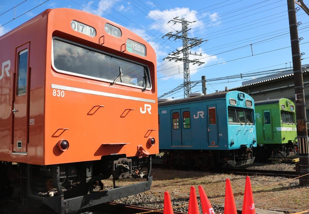 A line-up of different JR West 103 series EMU variants at Suita Car Maintenance Center open day (left to right: Orange Vermilion, Sky Blue, Uguisu Green)